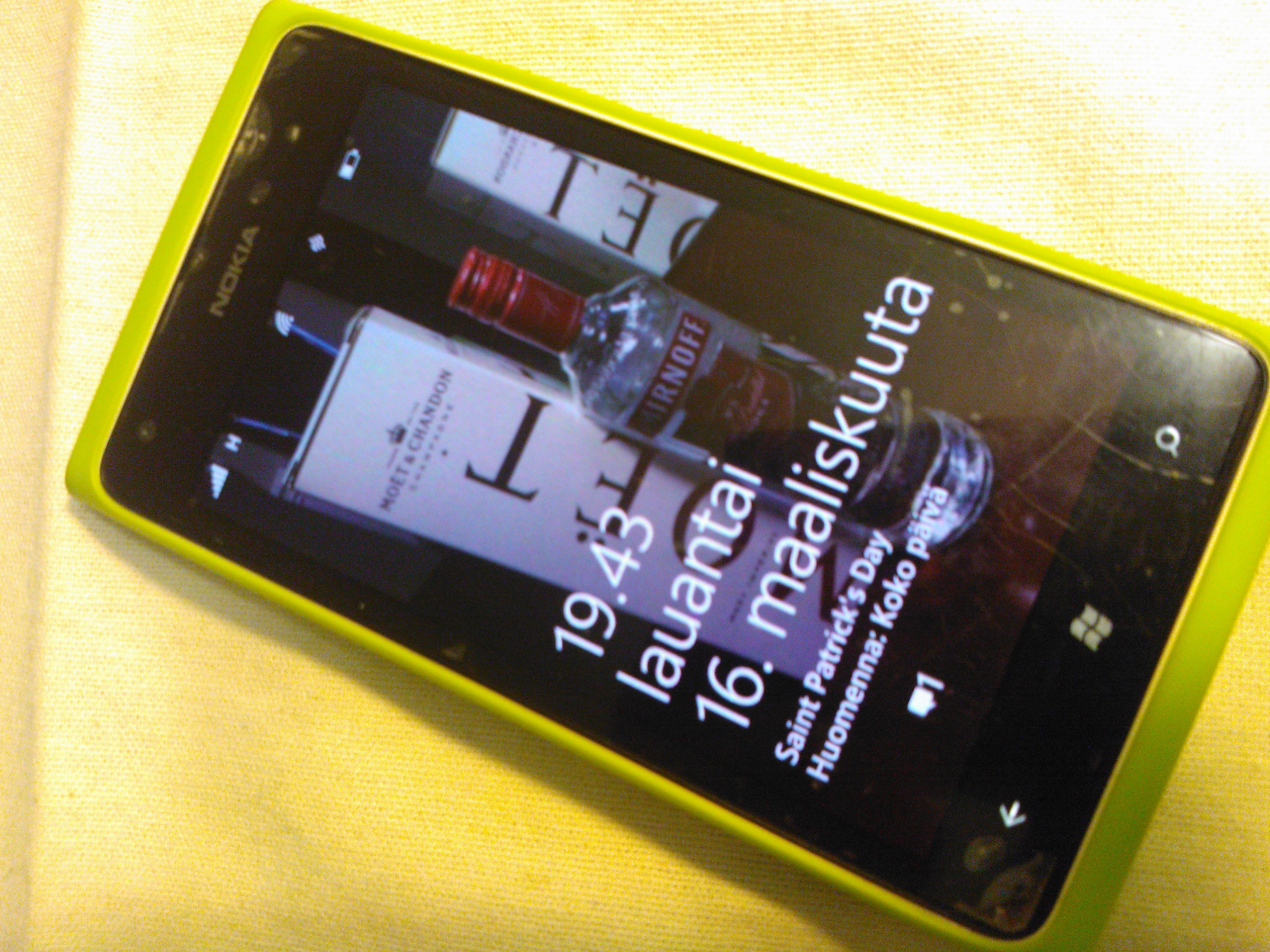 Lumia 900 phone